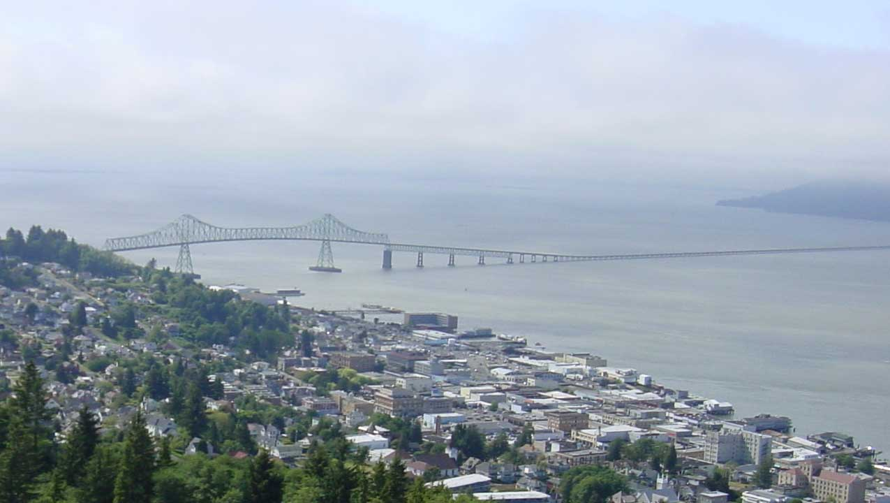 Subject: The Astoria-Megler Bridge (US 101) over the mouth of the Columbia River, west from the Astoria Column, Astoria, Oregon. Source: Taken by EmergentProperty, 2002. Modified by Cacophony, 2005.